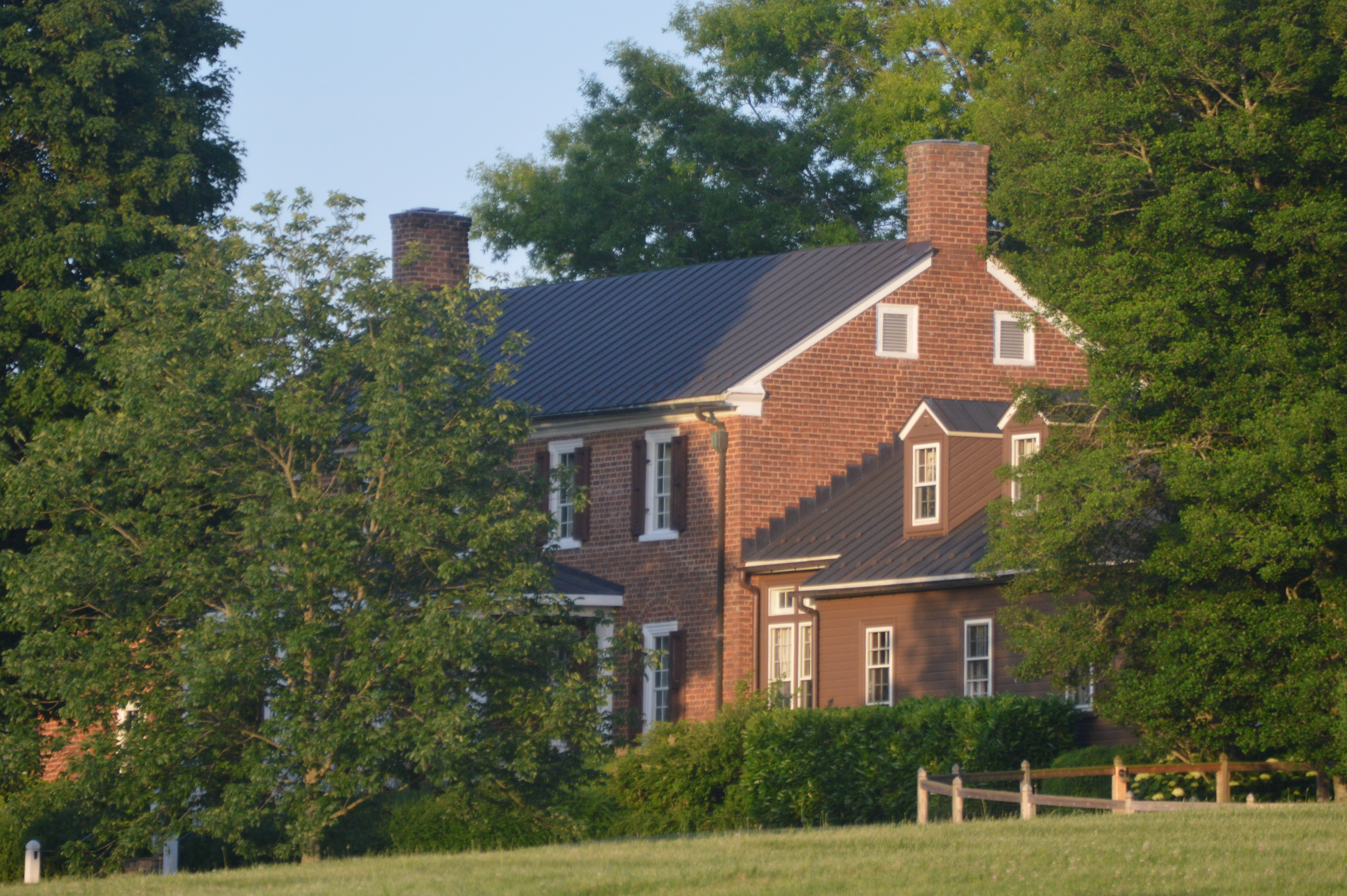 Front and western side of Marlbrook, located at 4973 Forge Road just northwest of Glasgow in Rockbridge County, Virginia, United States. Built in 1795, it is listed on the National Register of Historic Places.